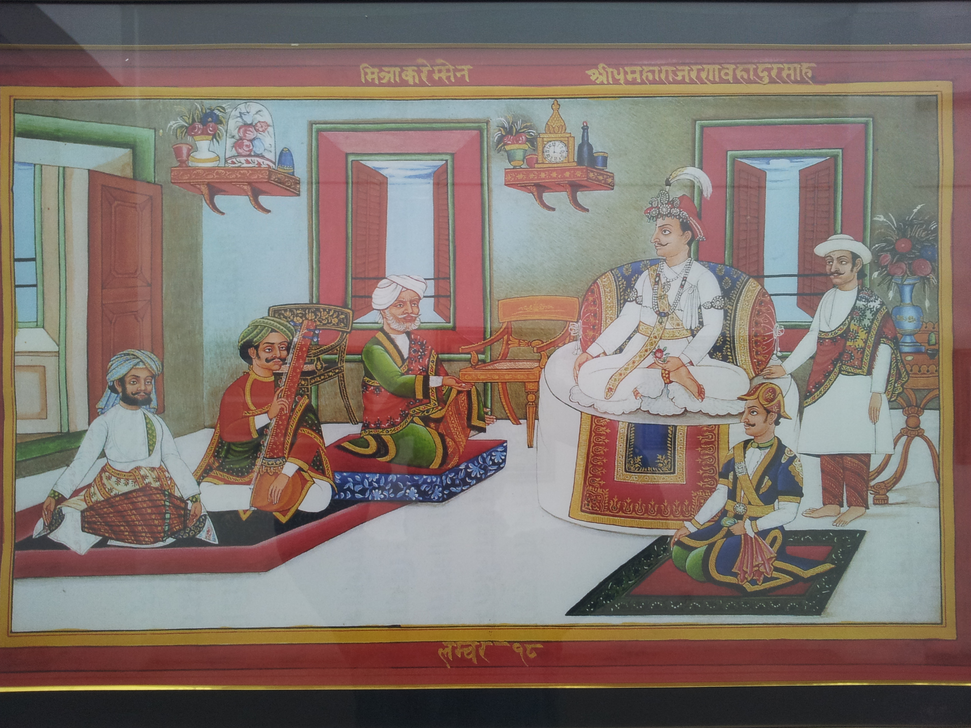 King Rana Bahadur Shah and Bhimsen Thapa listening to the Mitra Karem Sen's singing